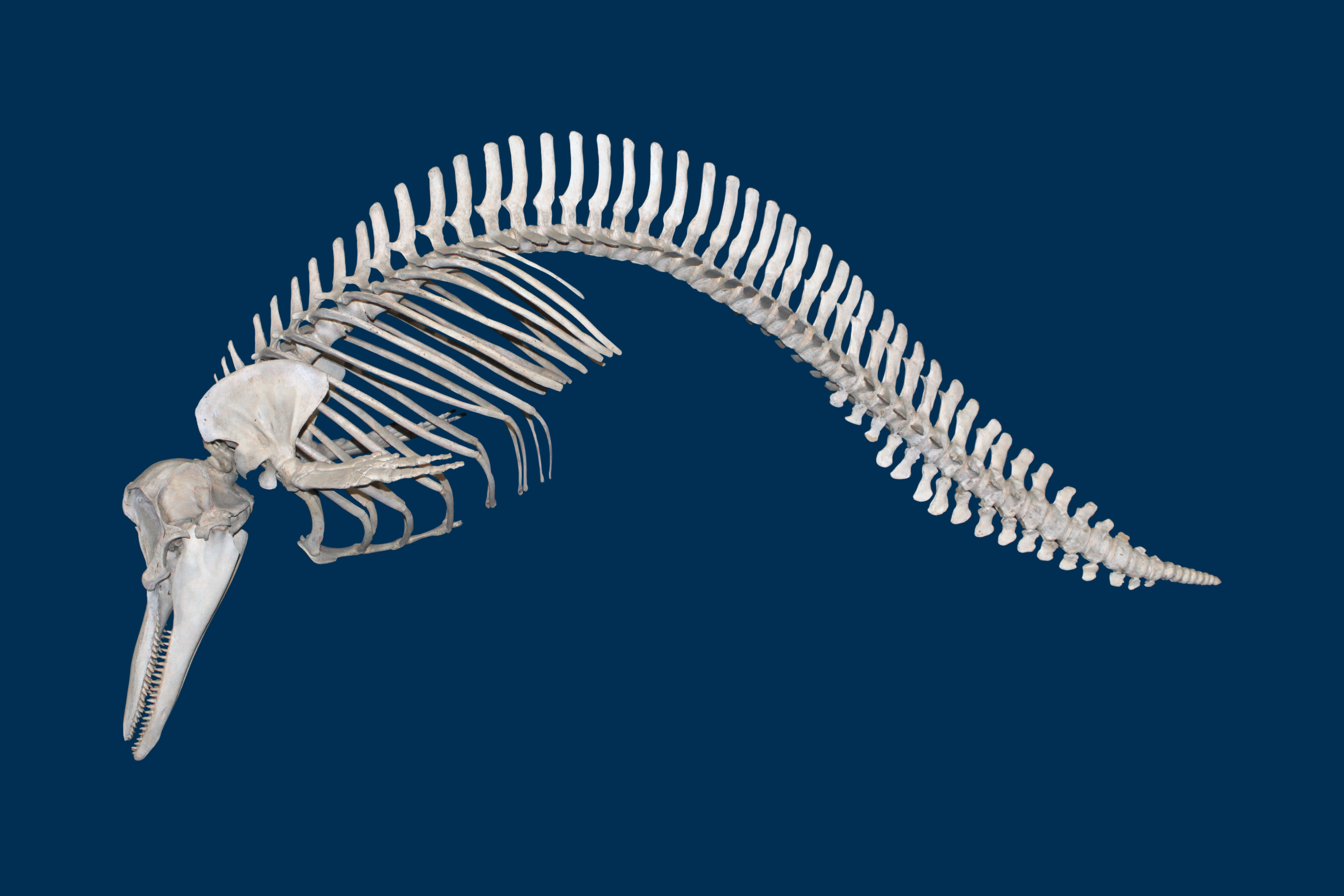 Delphinus delphis, Delphinidae, Short-beaked Common Dolphin; Staatliches Museum für Naturkunde Karlsruhe, Germany.